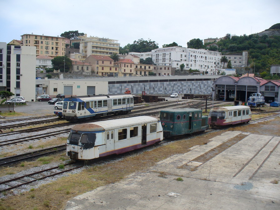 Bastia - old trains at the SNCF Corse station